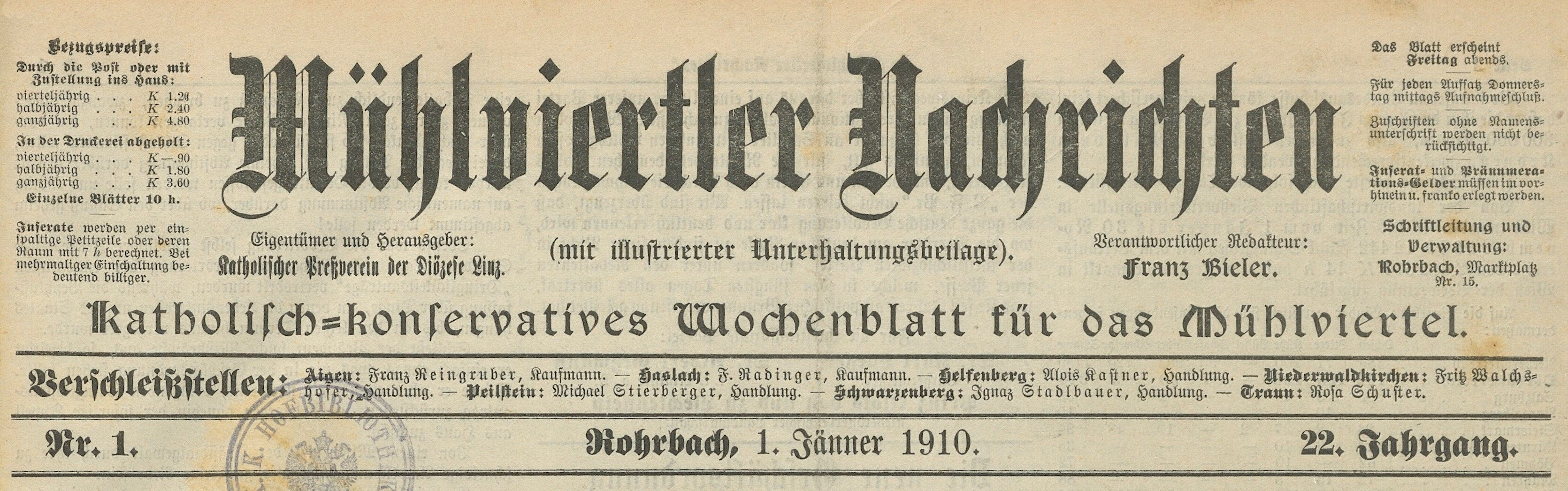 Header of the title page of the Upper Austrian weekly Mühlviertler Nachrichten 1910